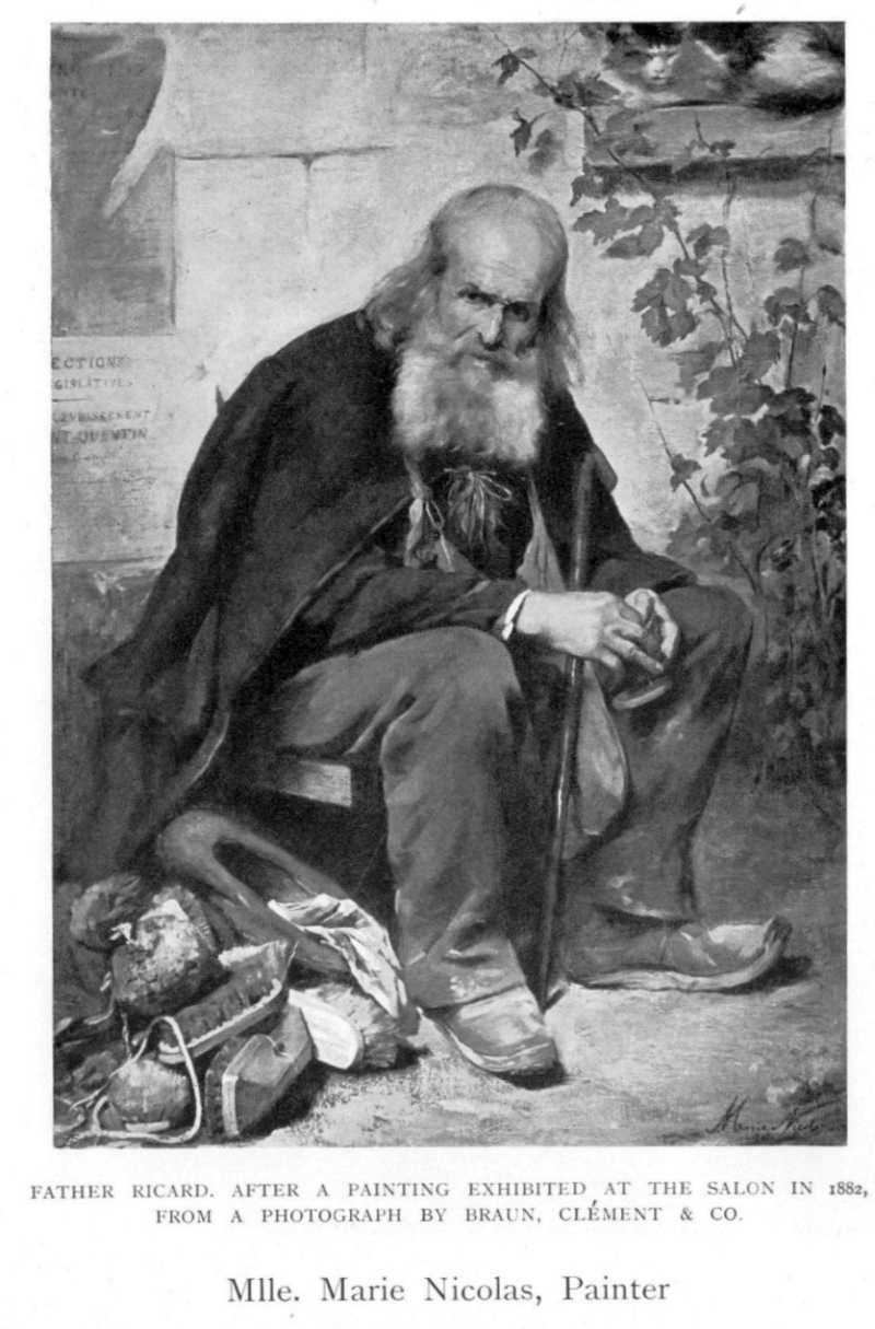 1905 print after page of Women painters of the world, from the time of Caterina Vigri, 1413-1463, to Rosa Bonheur and the present day, by Walter Shaw Sparrow, The Art and Life Library, Hodder & Stoughton, 27 Paternoster Row, London